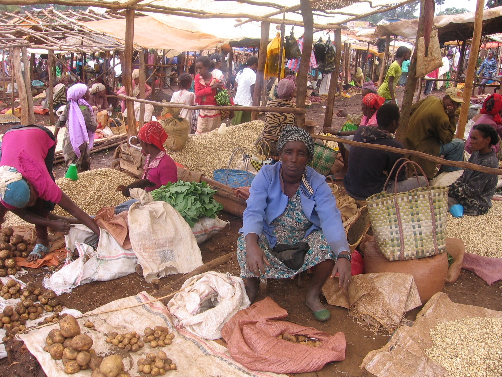 This is an image of "African people at work" from Ethiopia